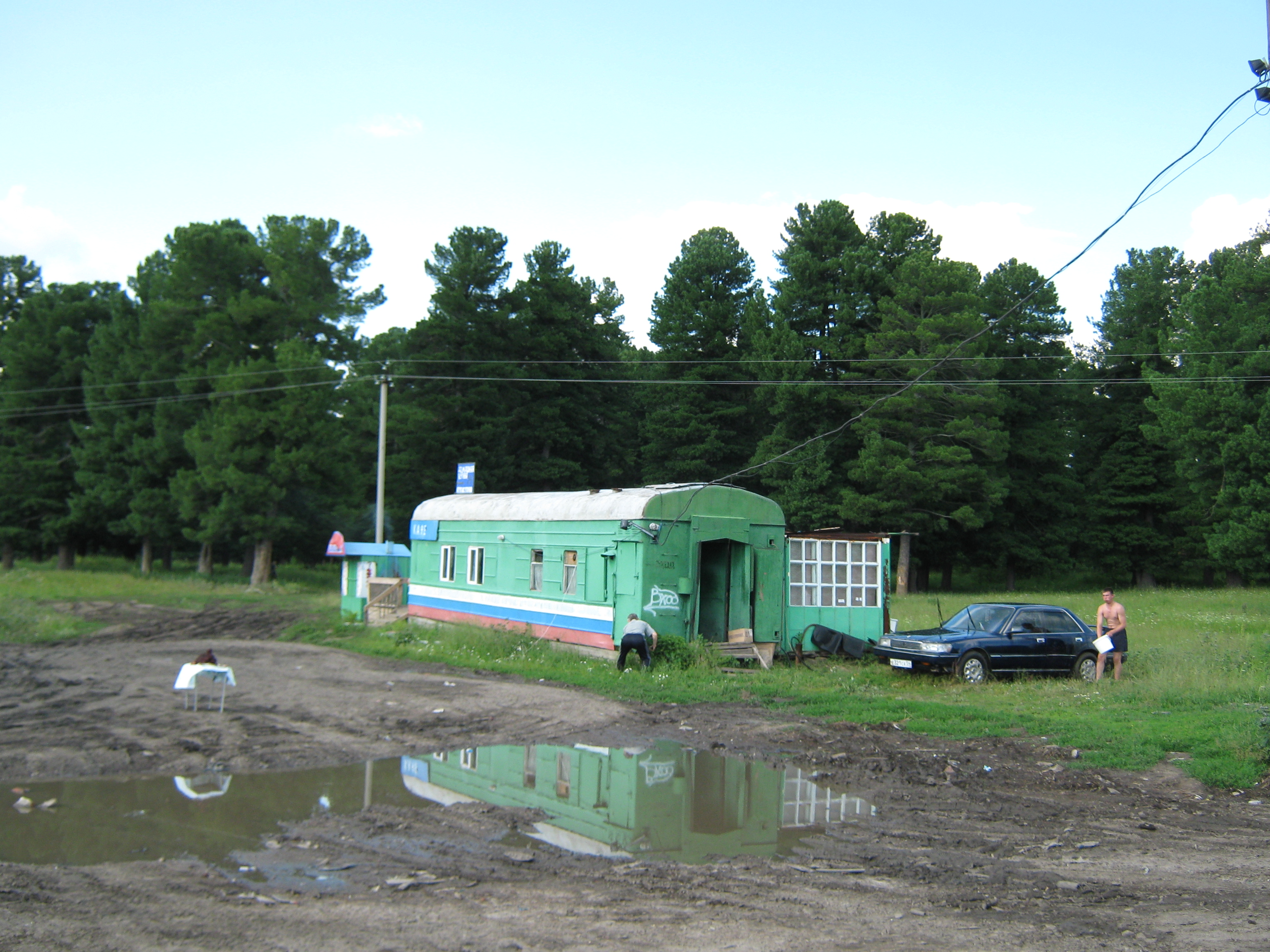 Базой. Местный бизнес - продажа шишек возле кедрача. This image is related to the protected area of Russia number 7010055